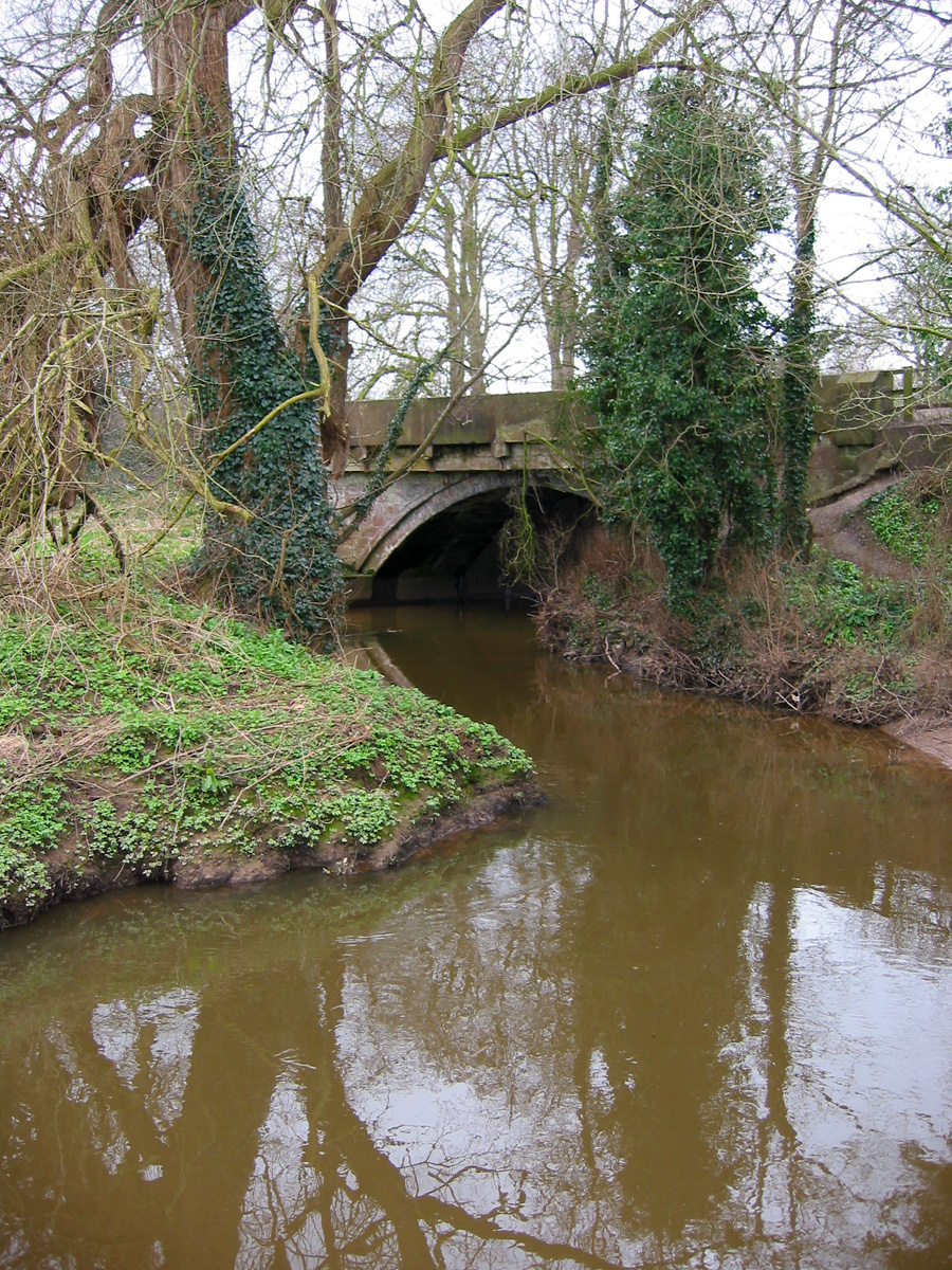 Marshfield Bridge (A530) over Valley Brook, Marshfield Bank, Woolstanwood, near Crewe